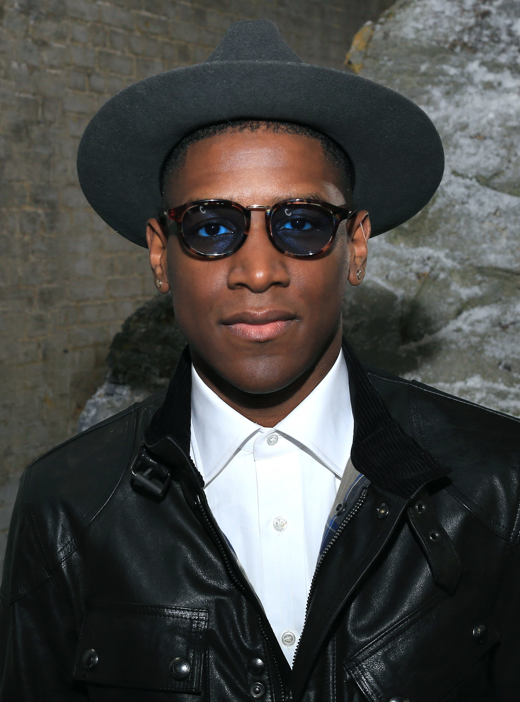 Labrinth portrait by Walterlan Papetti